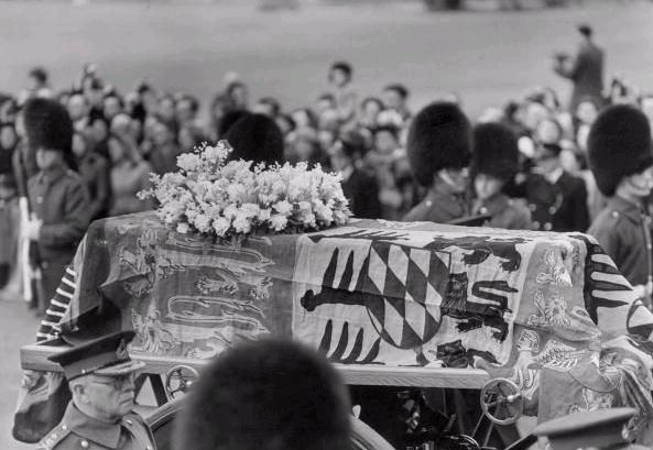 Coat of arms of Queen Mary, consort of King George V